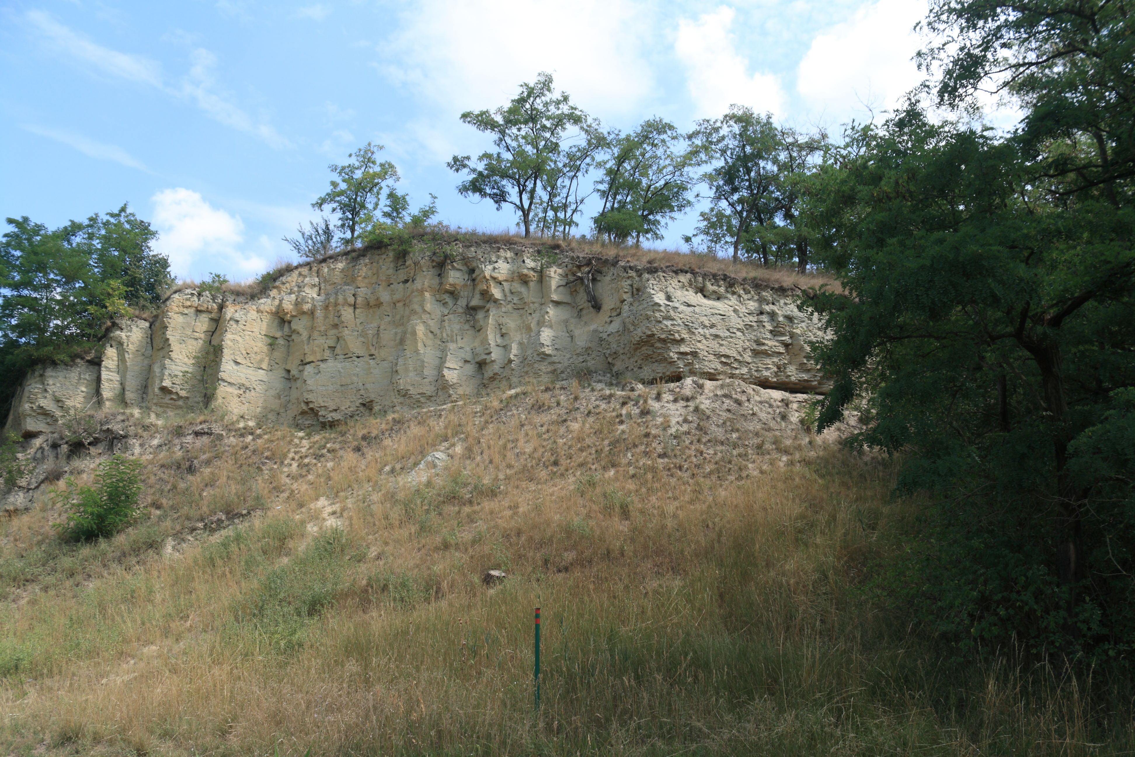 Natural monument "Výchoz" near village Čejč in Czech Republic. A remnant of surface mining of lignite and sand.